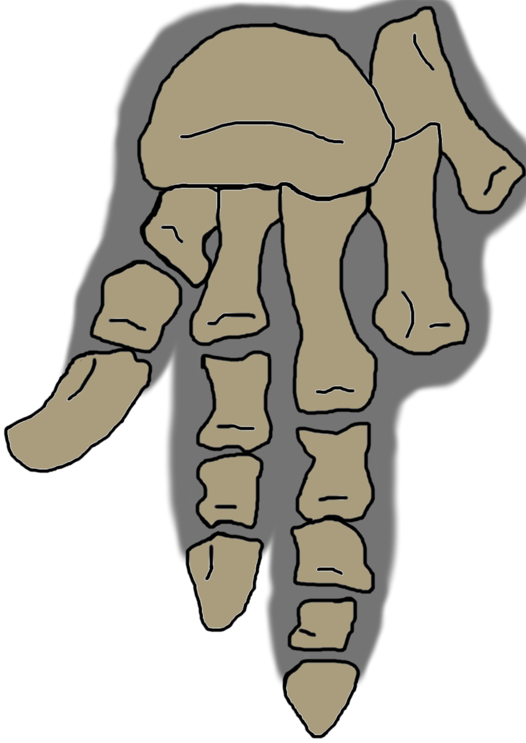 Reconstruction of the left pes of Vulcanodon. This foot was first decribed by Raath in 1972, and has more primitive features than the feet of other sauropods.